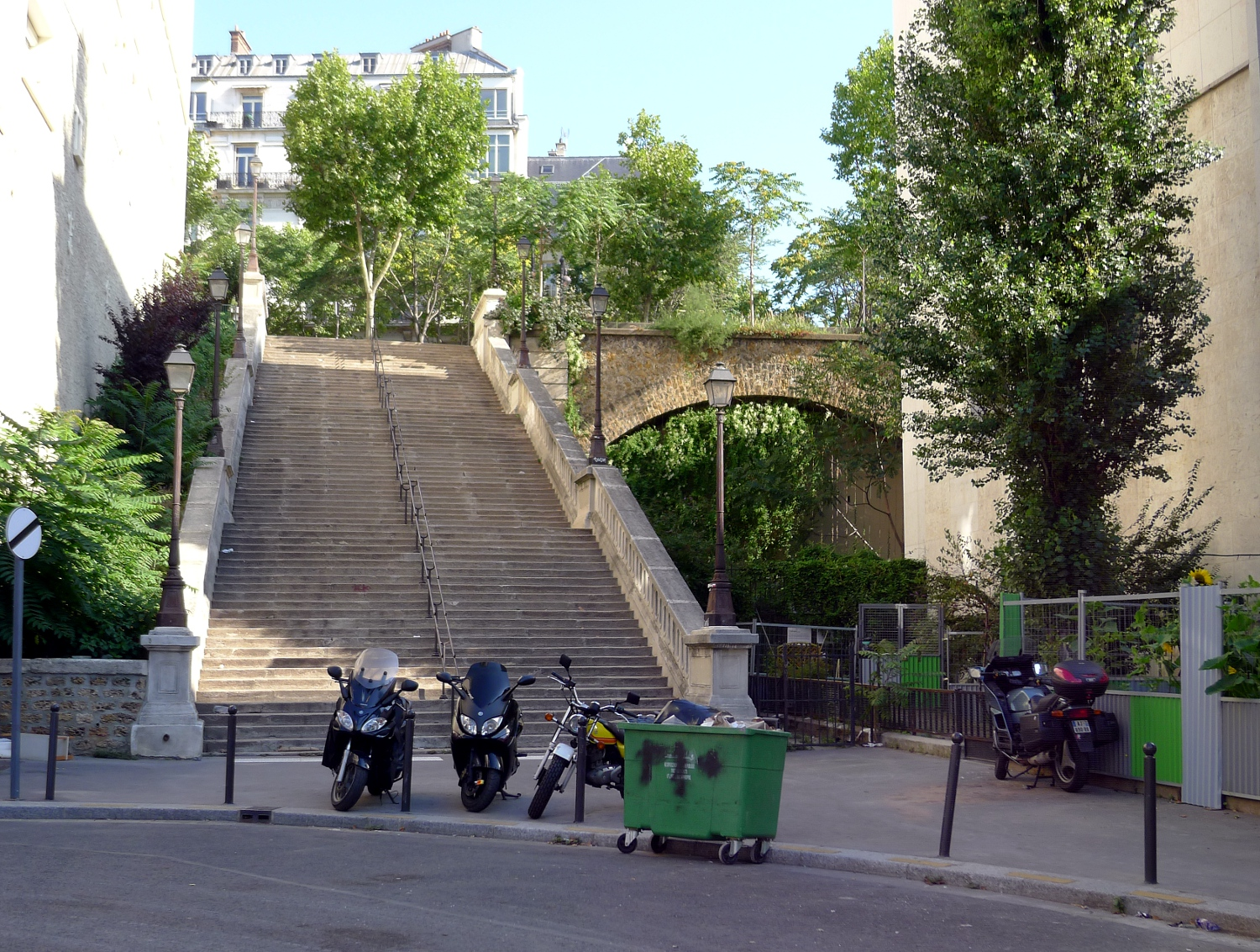 Manutention street - Paris